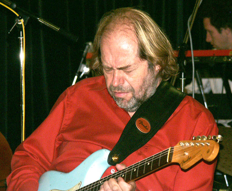 Ray Russell appearing live at the Cinque Ports, Uckfield, Sussex 14 July 2004